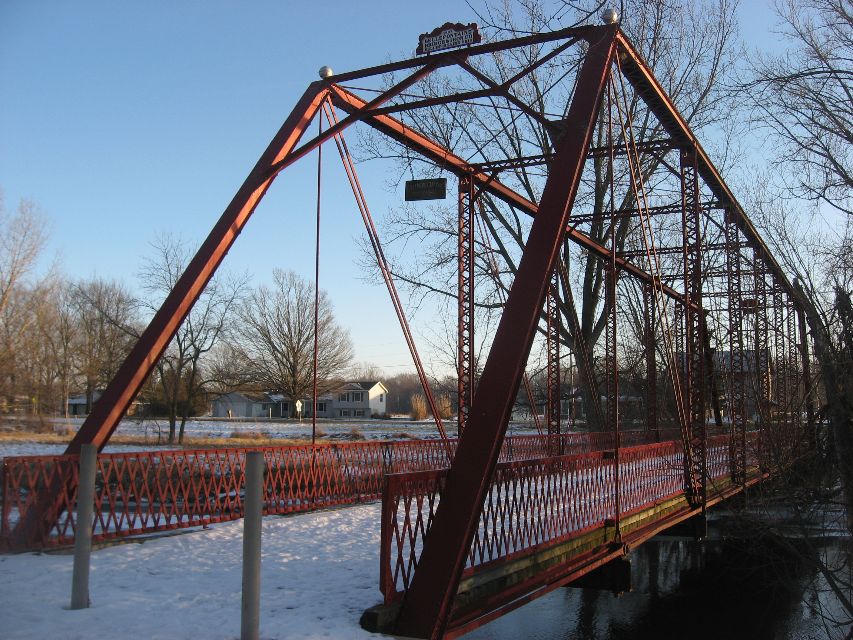 Northern portal and western (downstream) side of the Chinworth Bridge, which spans the Tippecanoe River west of Warsaw in Harrison and Wayne Townships of Kosciusko County, Indiana, United States. Built in 1897, it is listed on the National Register of Historic Places.